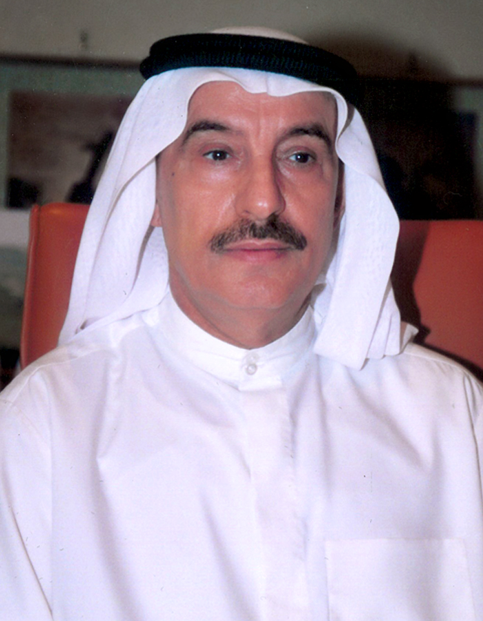 Qasim Sultan Al Banna